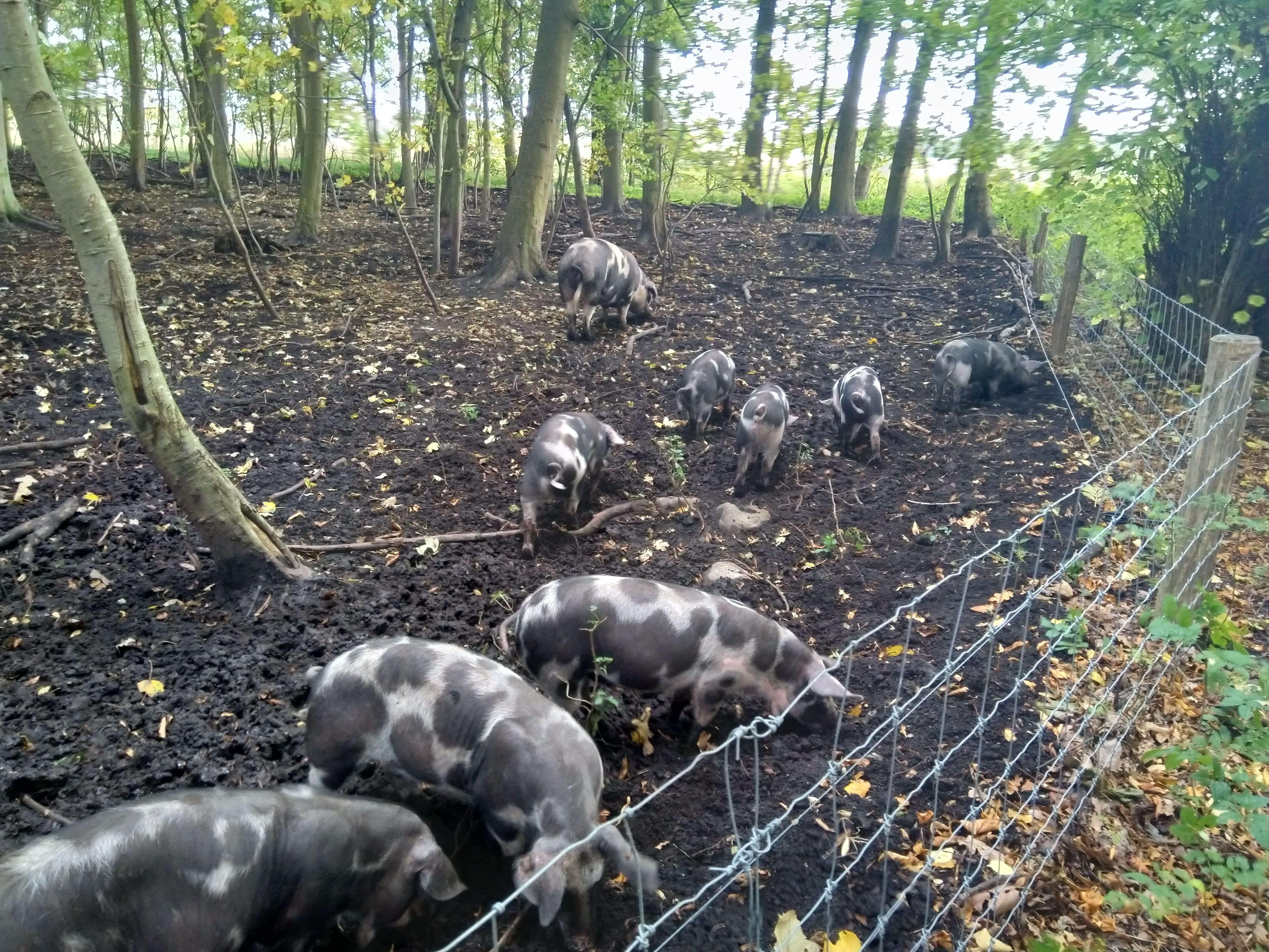 Free range pigs in the forrest at Dragshom Slot.